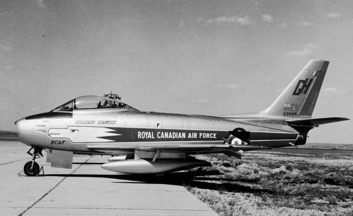 Ex-RCAF Golden Hawk Canadair F-86 23424 purchased by Lynn Garrison for his collection, July 1964 Other information This aircraft was part of Lynn Garrison's collection. It was then transferred to Russ O'Quinn's Flight Test Research in California